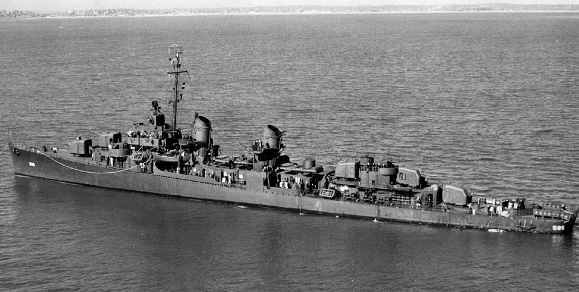 The U.S. Navy destroyer USS Haraden (DD-585) off Boston, Massachusetts (USA), on 6 October 1943.